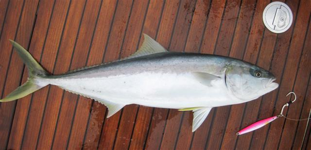 Ubatuba, Brazil - October, 14 2010 - 85cm